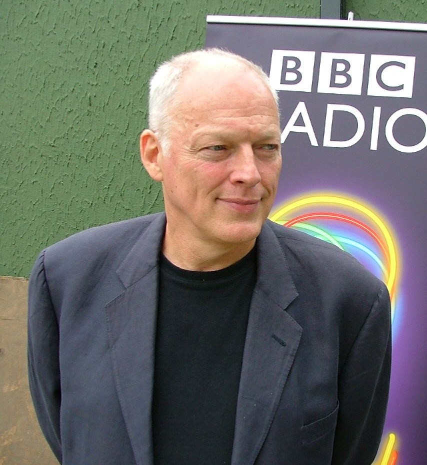 David Gilmour at Live 8. Cropped version of Image:Mr David Gilmore.jpg.